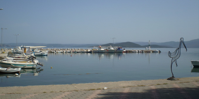 Port of Livanates, Phthiotis, Greece